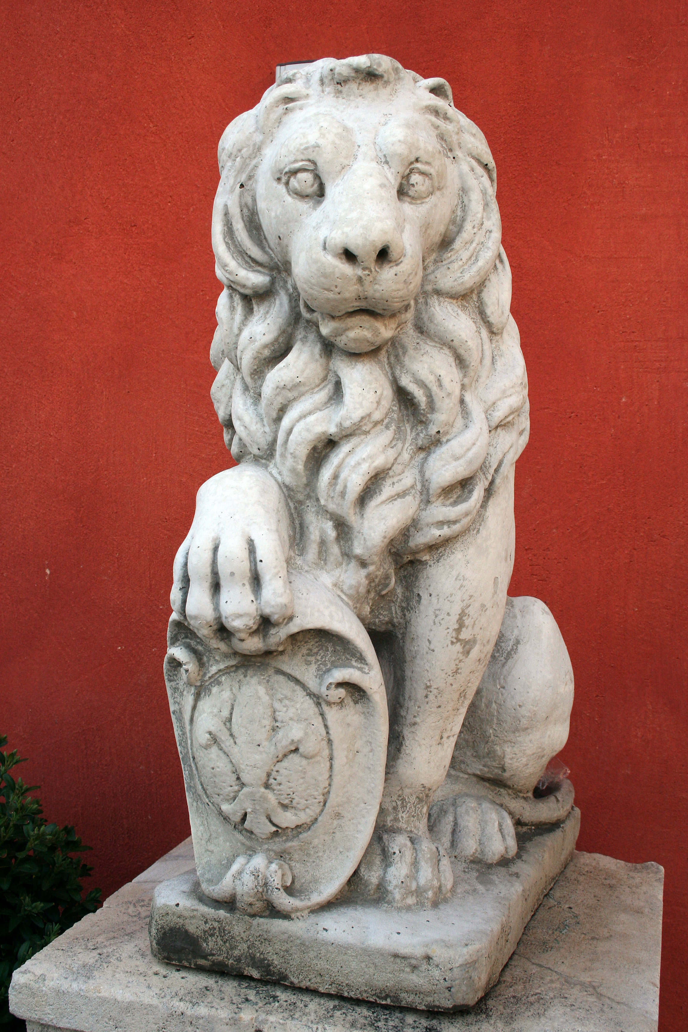 Lion statue from Sacile, Pordenone, Italy